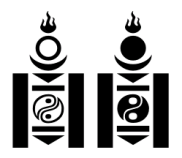 The two variants of the Soyombo symbol